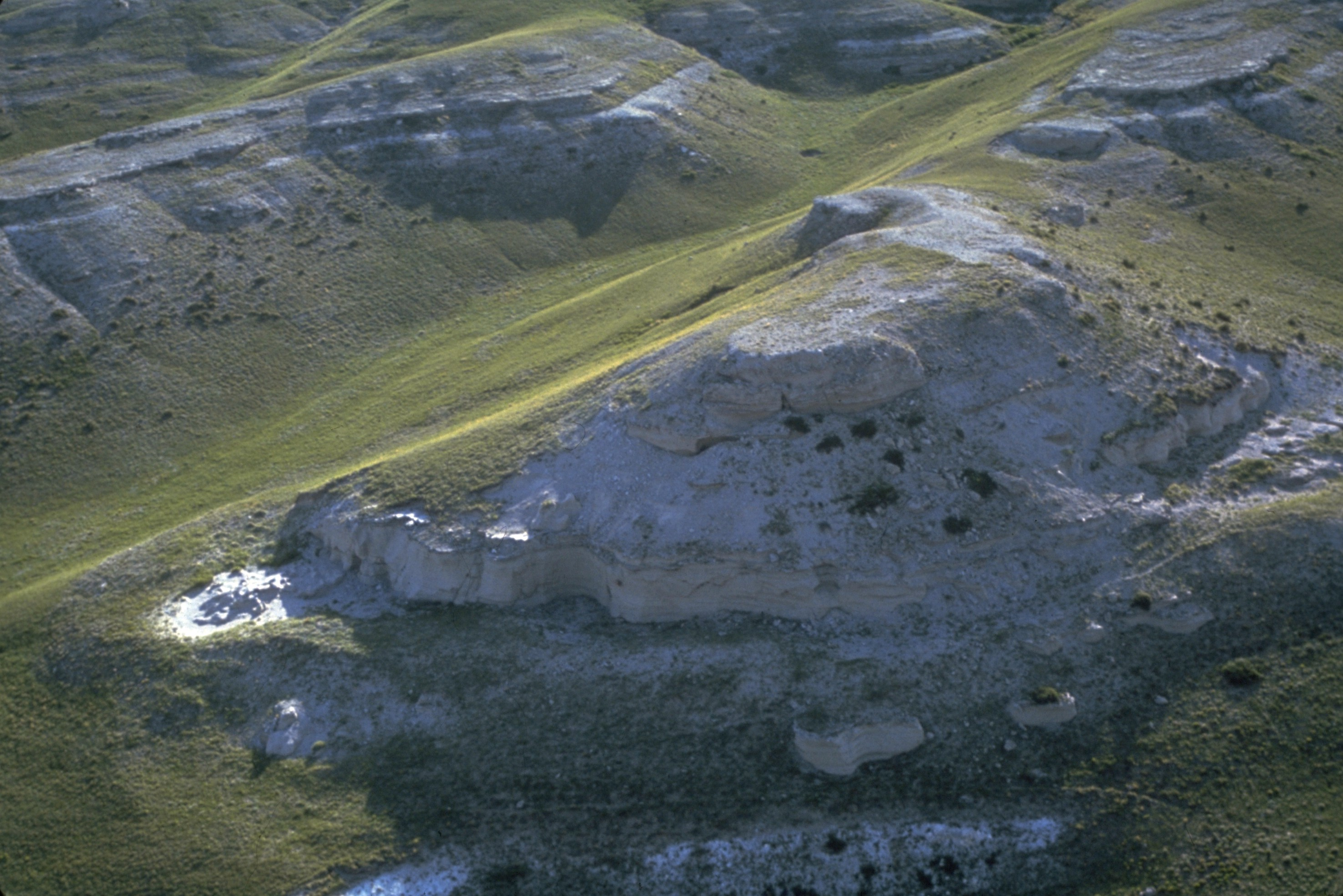 Bluffs above Niobara River in Agate Fossil Beds National Monument, Nebraska, USA